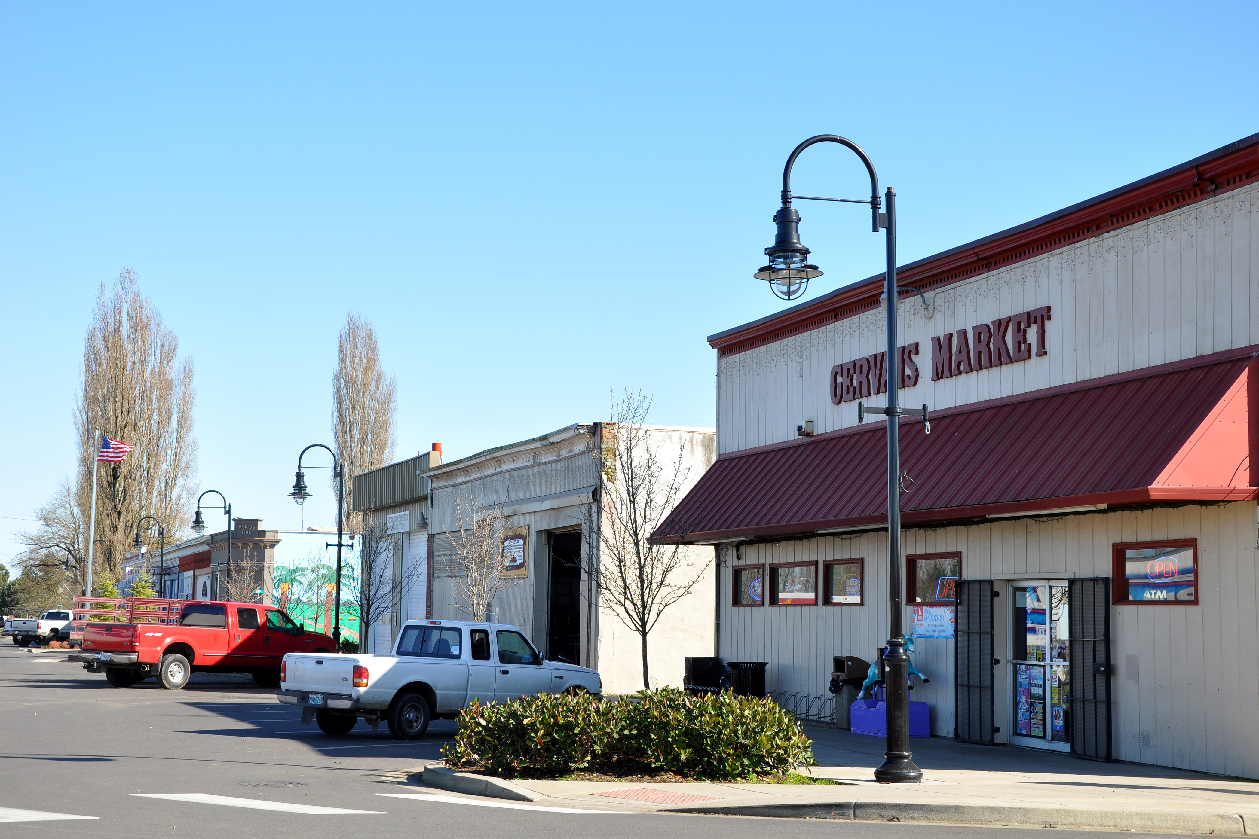 Fourth Street in Gervais, Oregon, United States, looking north